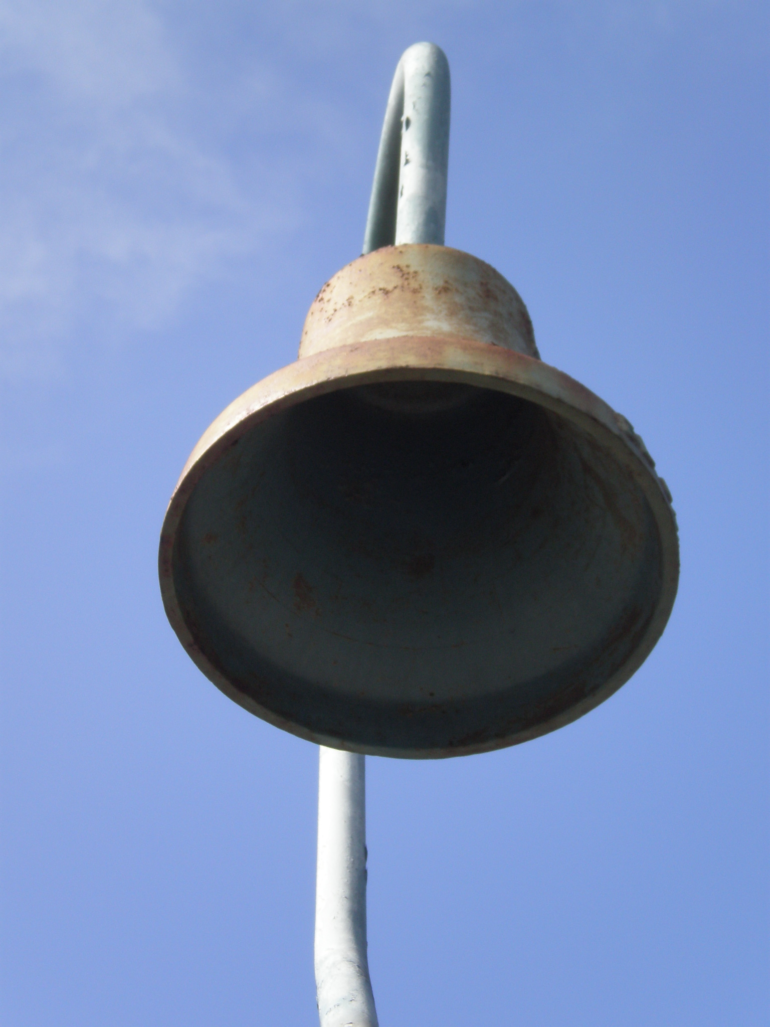 A marker bell at El Camino Real and Arroyo Drive in South San Francisco, California.